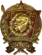 VCHK/OGPU/KGB 10years - 1927